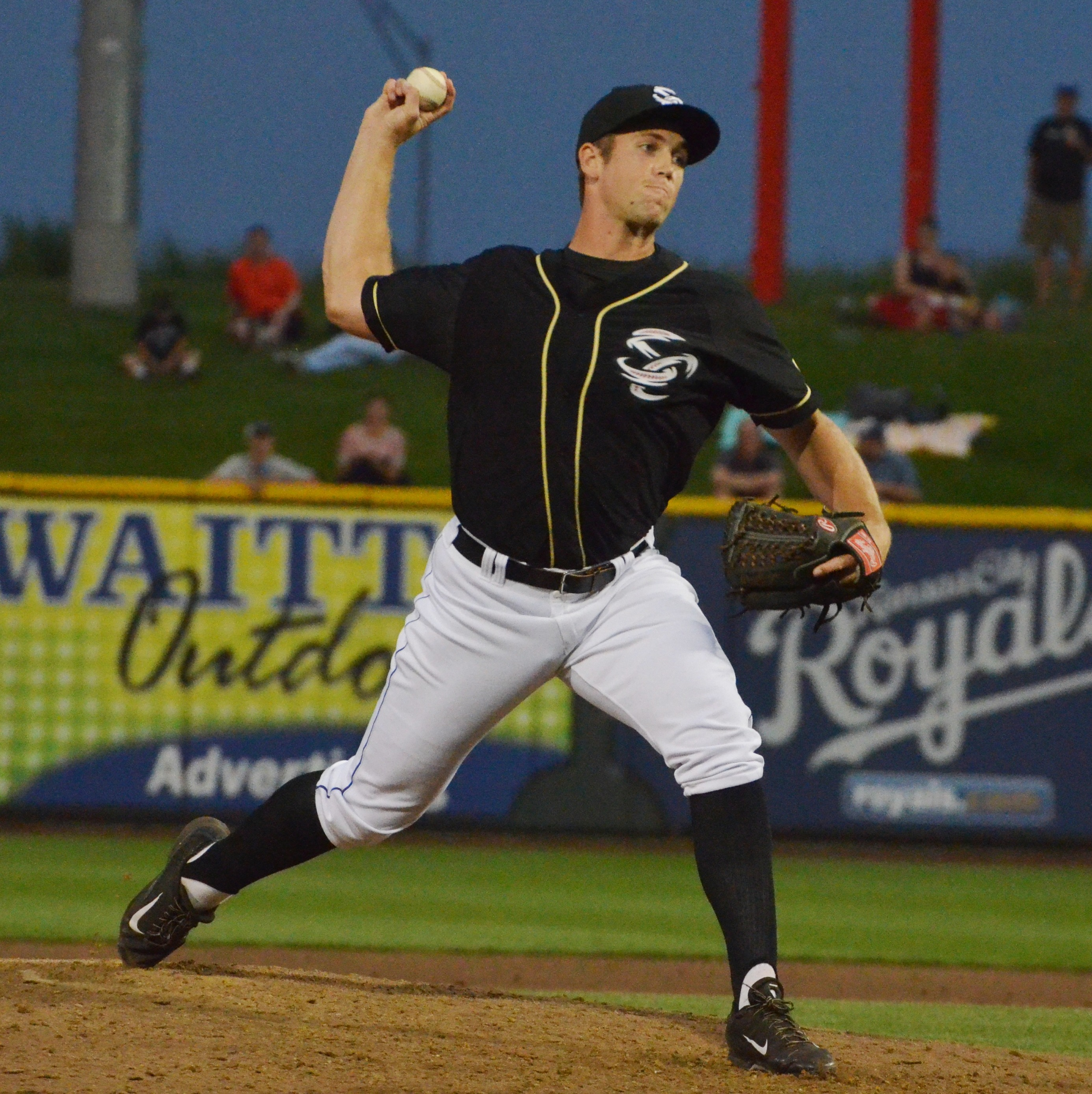 Jason Adam delivers a pitch for the Omaha Storm Chasers during a 2014 game at Werner Park in Omaha.